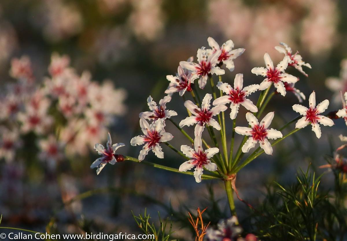 Hessea cinnamomea (L'Hér.) T.Durand & Schinz - Cape of Good Hope reserve (Table Mountain National Park), South Africa - after fire in November 2017